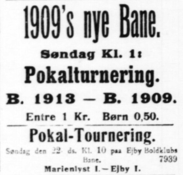 Advertisements for the two association football quarter-final matches in the 1926 FBUs Pokalturnering - 1909's nye Bane. Søndag Kl. 1: Pokalturnering. B. 1913 - B. 1909. Entre 1 Kr. Børn 0,50. - Pokal-Tournering. Søndag den 22 ds. Kl. 10 paa Ejby Boldklubs Bane. 7939; Marienlyst I. - Ejby I.